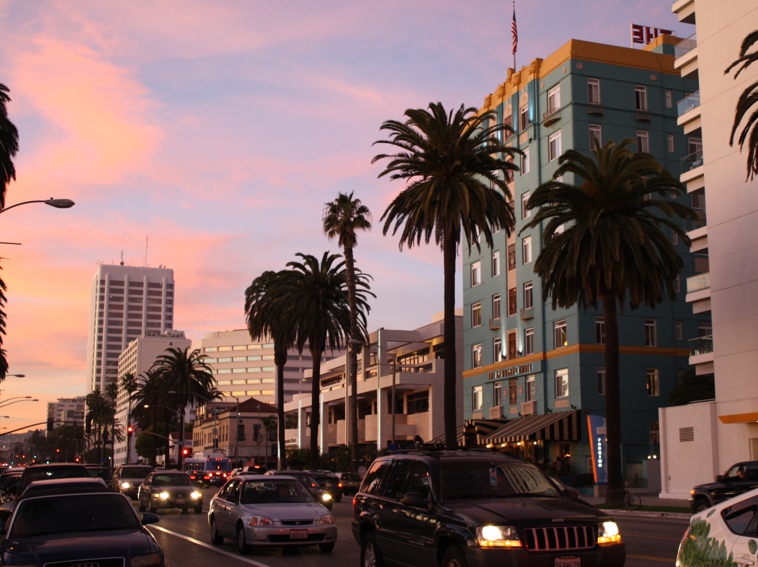 Ocean Avenue at sunset in Santa Monica, California